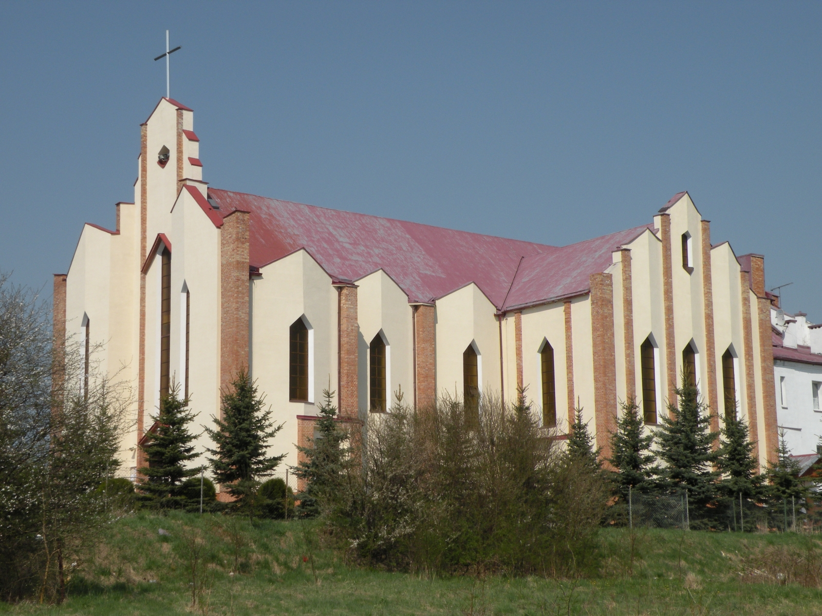 Saint Albert's Church in Kętrzyn (Poland)